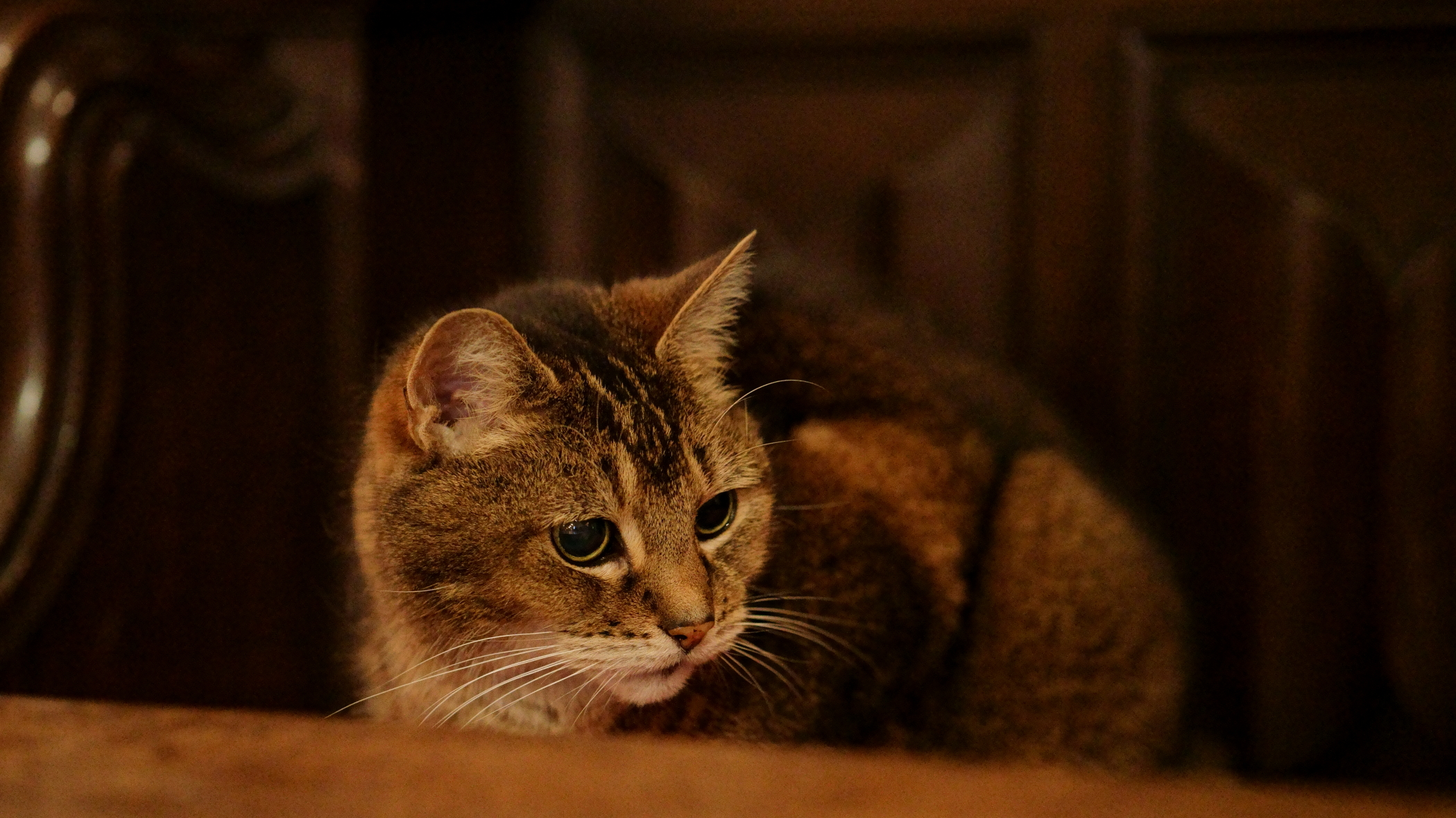 Now in her tenth year at Southwark Cathedral.